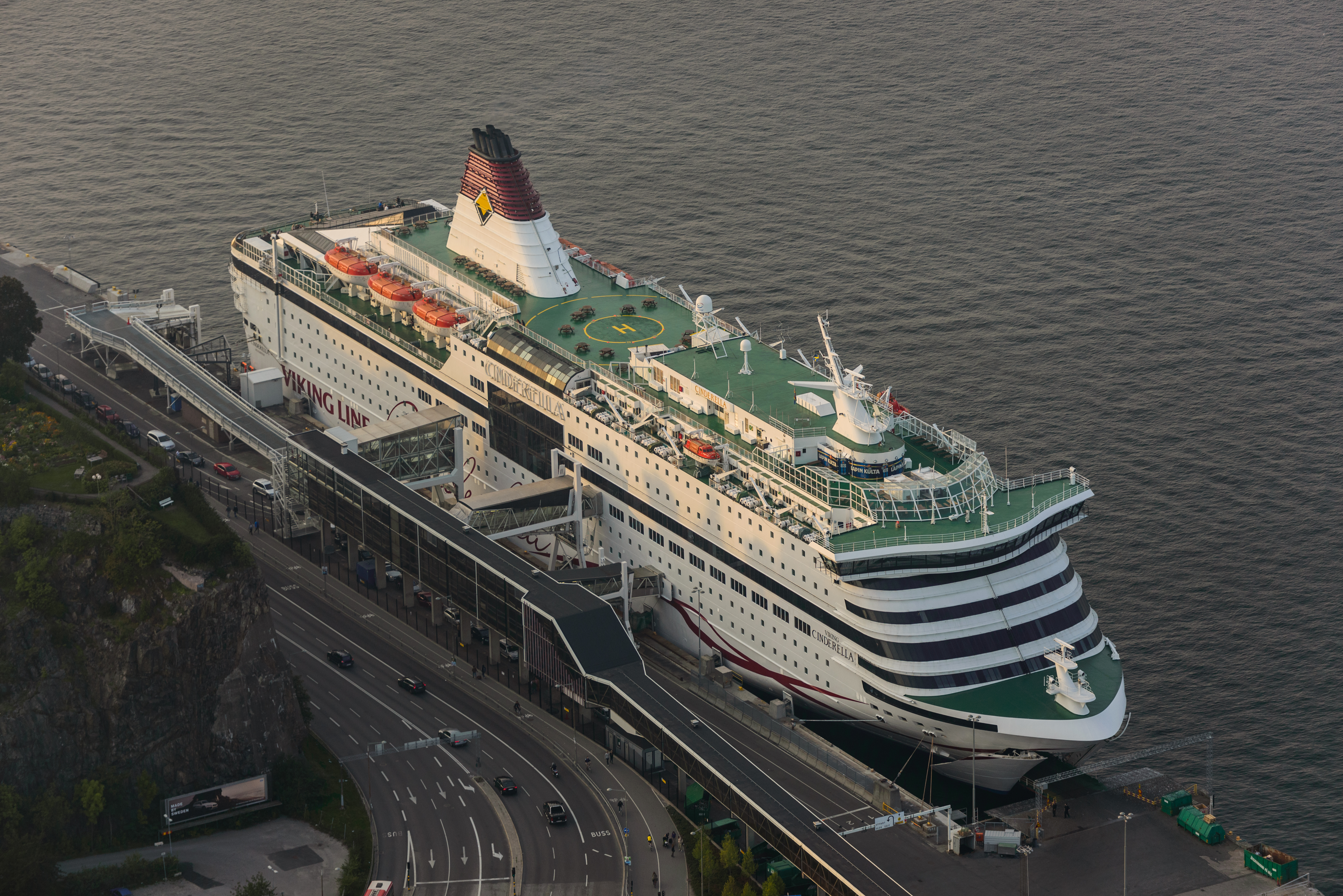 Cinderella.